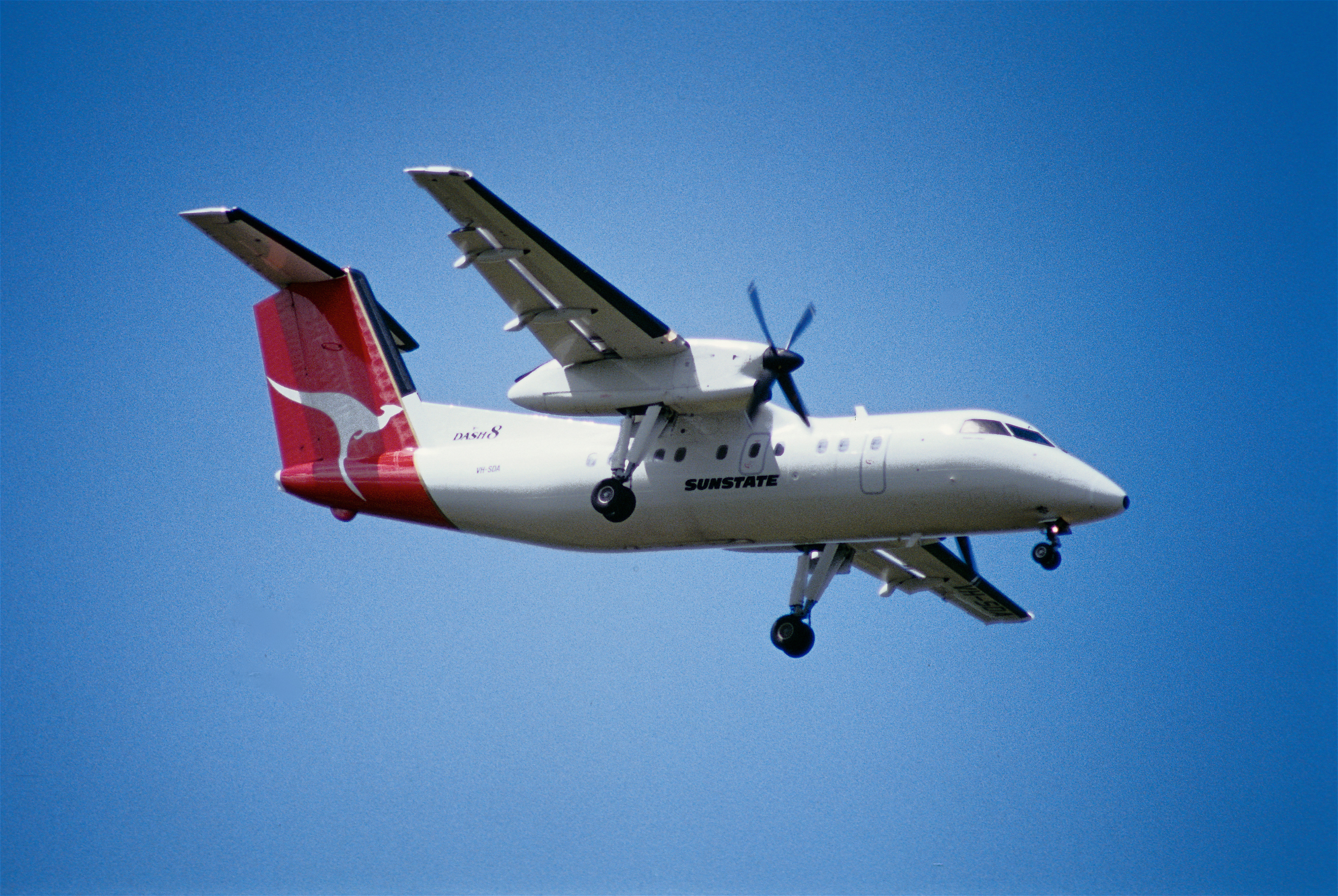 19/04/1998 Sunstate Airlines VH-SDA 12/09/2008 Eastern Australia VH-SDA